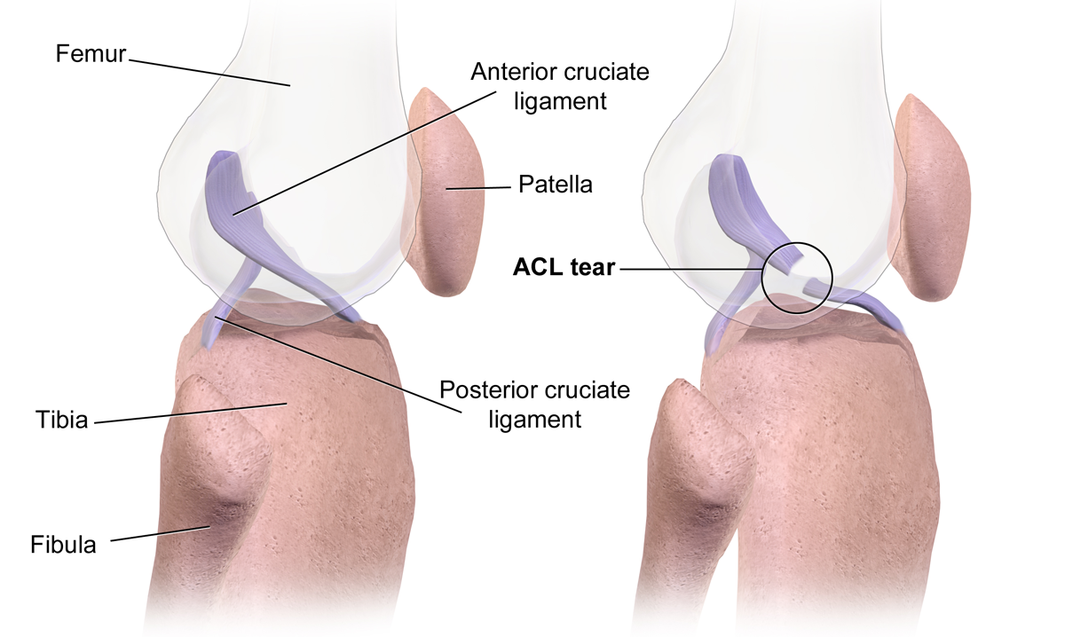 ACL Tear. See a full animation of this medical topic.